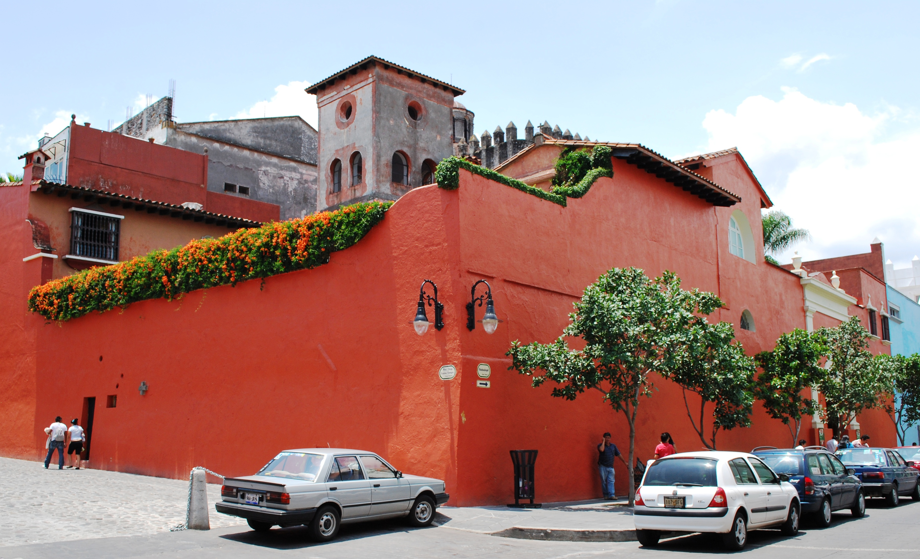 The Robert Brady Museum or Casa Torre located on Nezahualcoyotl Street in Cuernavaca, Morelos, Mexico